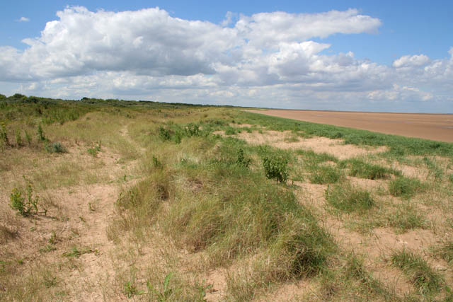 Saltfleetby-Theddlethorpe Dunes Nature Reserve Between Mablethorpe North End in the south and Saltfleet Haven in the north. for information.